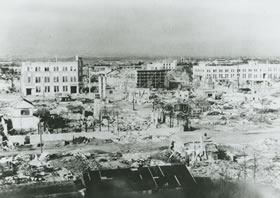 Numazu after the July 17 1945 air raid